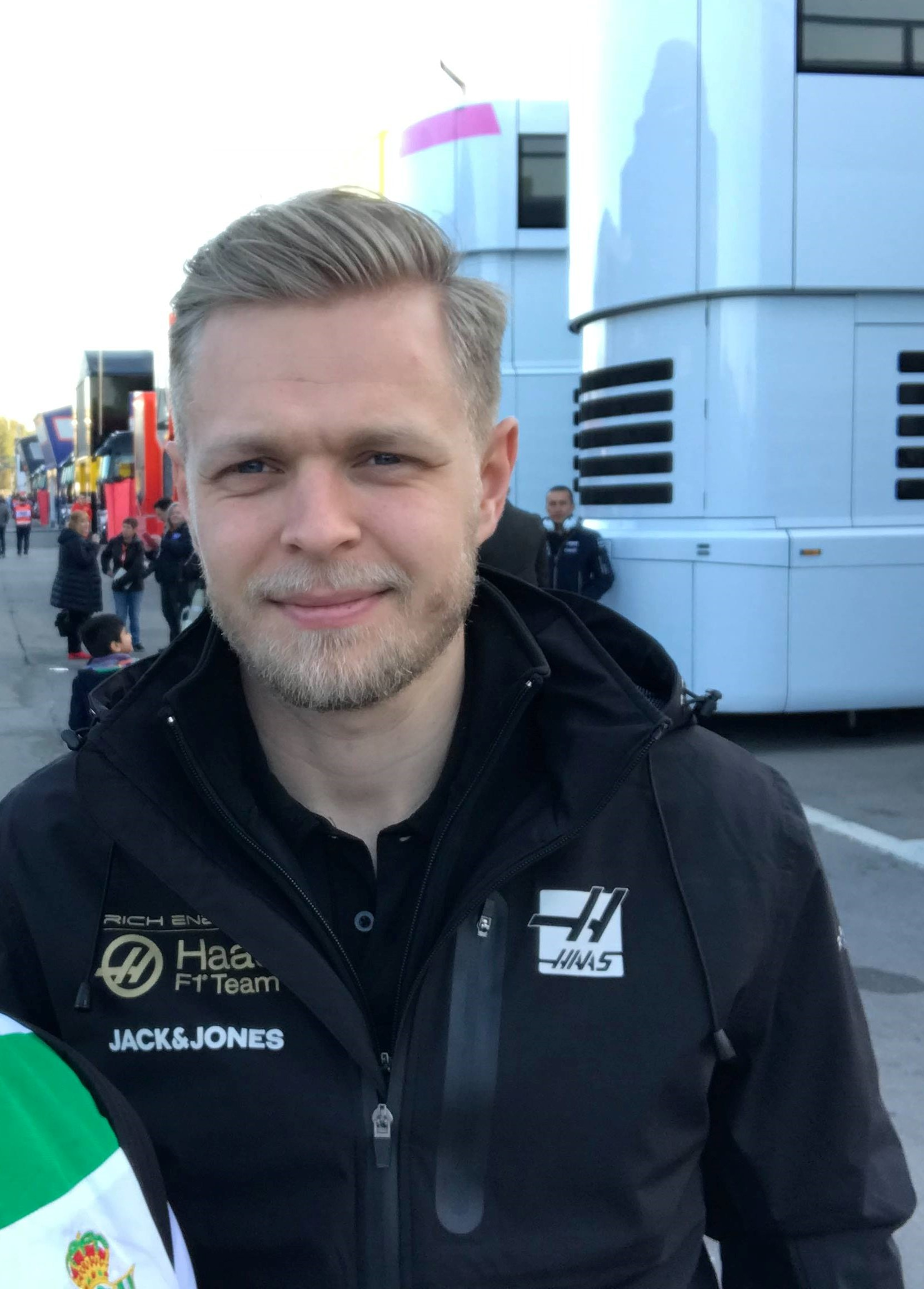 2019 Formula One tests Barcelona, Magnussen.